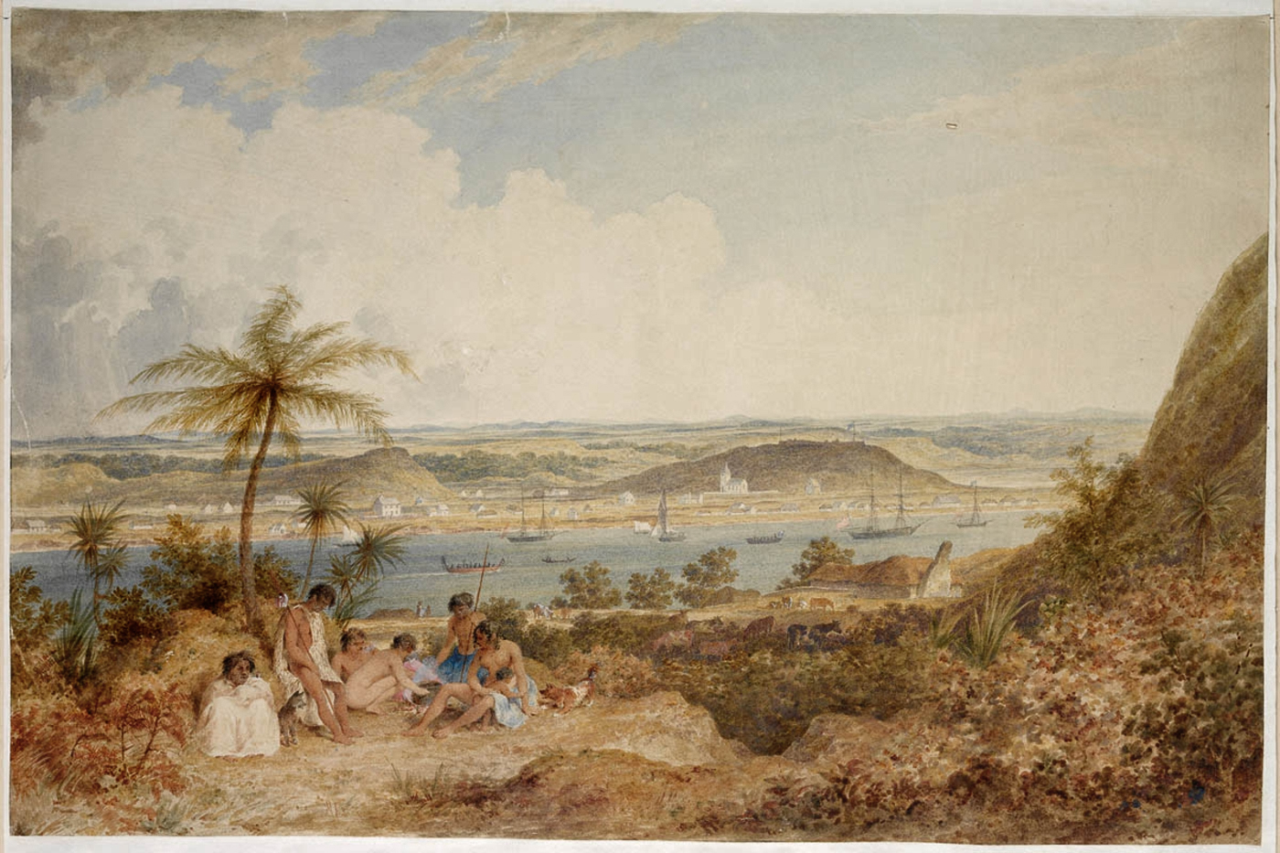 View of Whanganui, New Zealand, 1847, John Alexander Gilifillan, watercolour, State Library of New South Wales, DG V7B/1